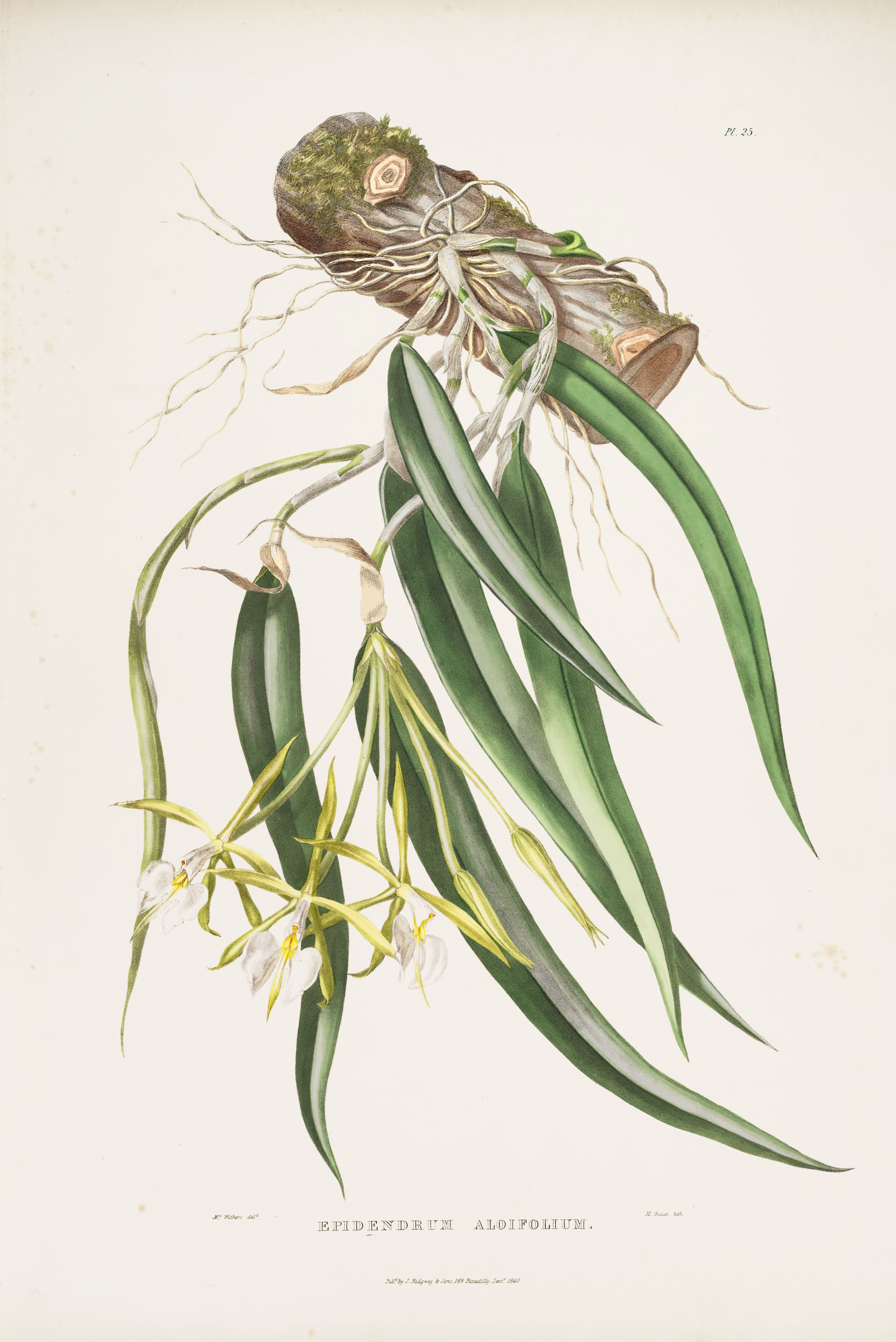 Illustration of Epidendrum parkinsonianum (as syn. Epidendrum aloifolium)